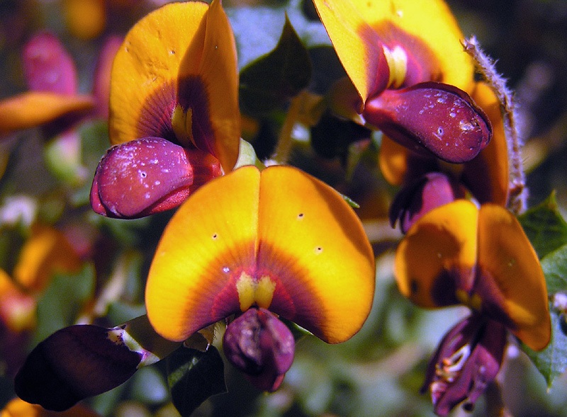 "bacon egg pea" (Western Australia) - not Eutaxia obovata